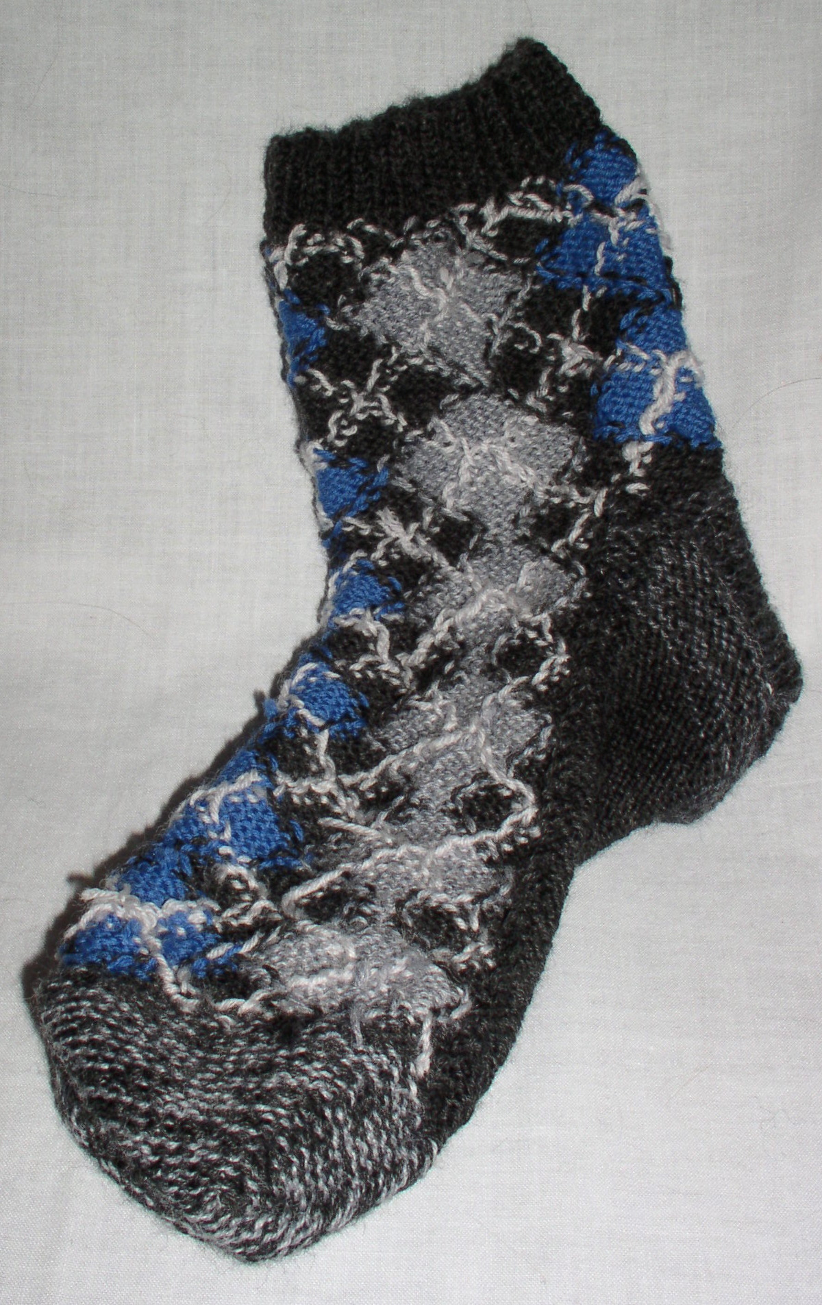 An argyle sock turned inside-out to show the technique better. Taken by me in August 2005. See also Image:Argyle-sock.jpg for the right-side-out version.